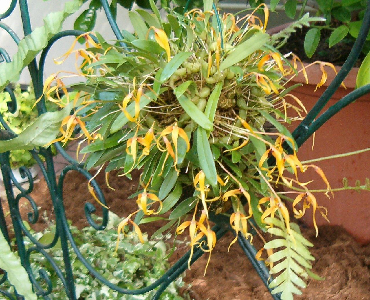 Bulbophyllum inaequale, Habitus and Flowers Location: Botanical Gardens Berlin - Orchid Exhibition